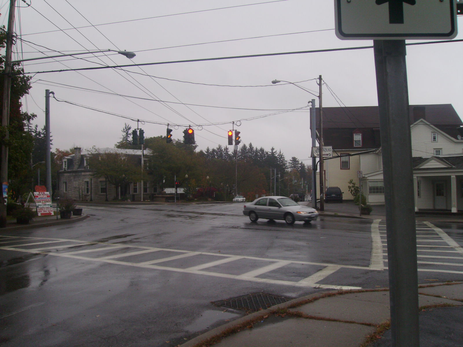 The intersection of NY 343, U.S. Route 44 and NY 22 in Amenia, New York. This view is from U.S. Route 44 eastbound, NY 22/NY 343 SB heads to the right, NY 343 NB heads straight, and NY 22/US 44 NB/EB heads to the left. Amenia Island Cemetery is visible in the distance.